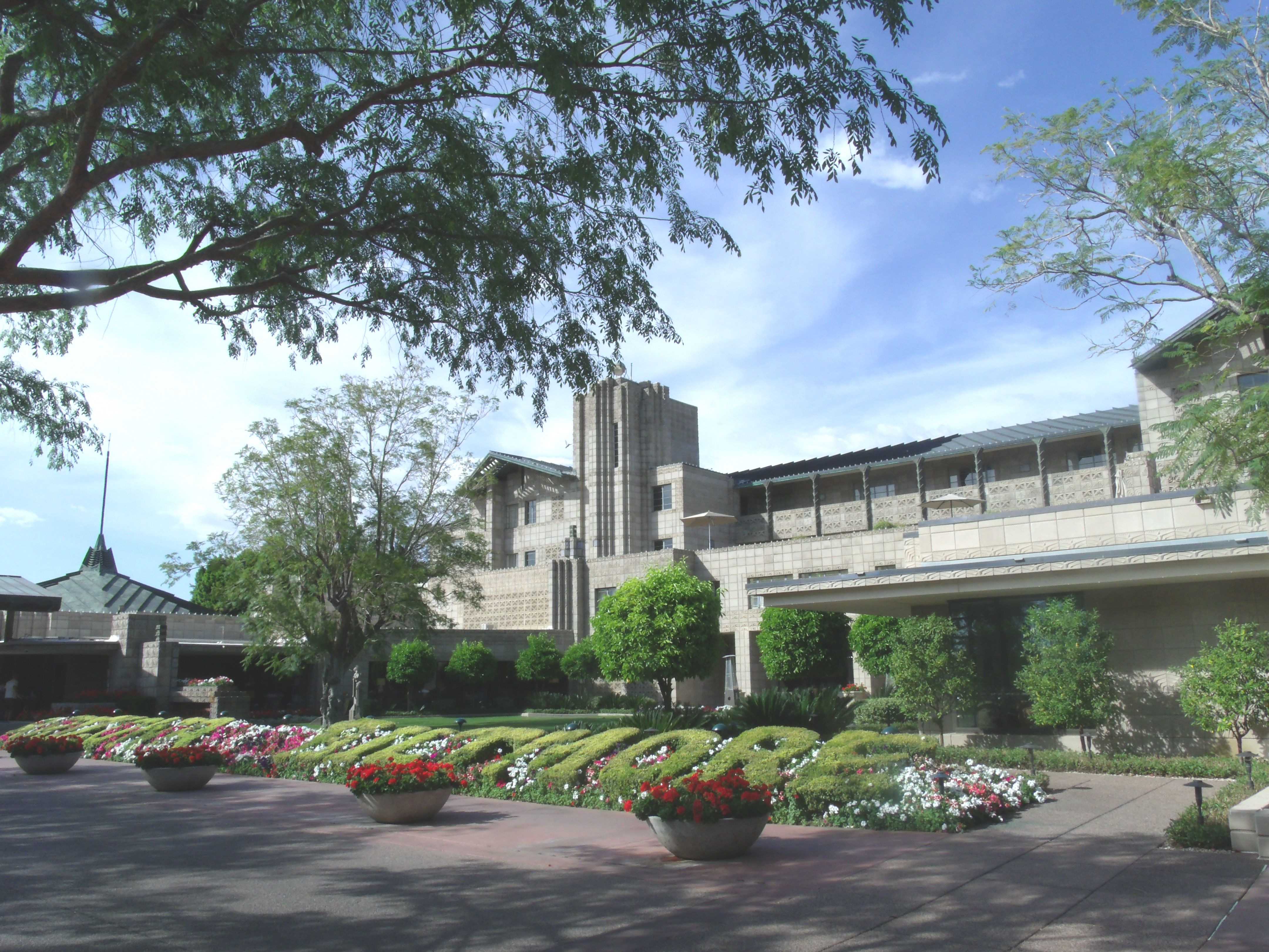 The Arizona Biltmore Hotel, known as the Jewel of the Desert, was built in 1929 and is located at 2400 Missouri Ave. The Arizona Biltmore has been designated as a Phoenix Point of Pride